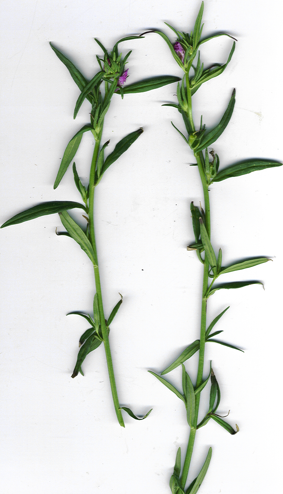 Antirrhinum orontium (plant). Location: Maui, Pukalani